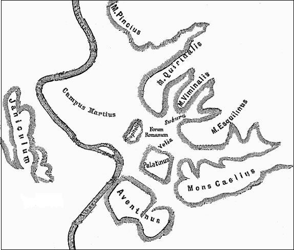 Map of Rome, before it was founded by Romulus. View of river Tibre and hills.